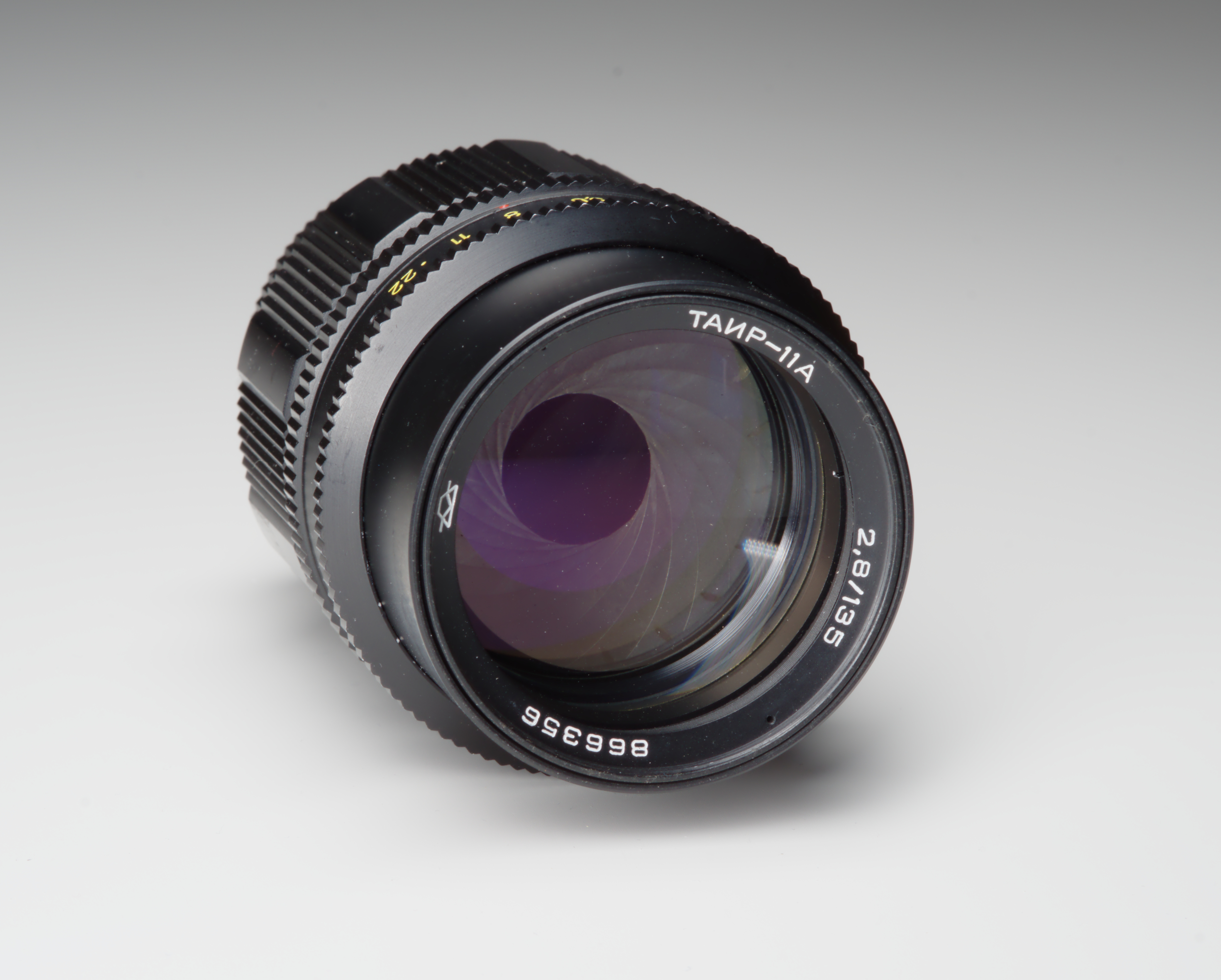 Tair 11A lens manufactured by the KMZ in the Soviet Union. This is an M42 mount 135mm f/2.8 preset lens.